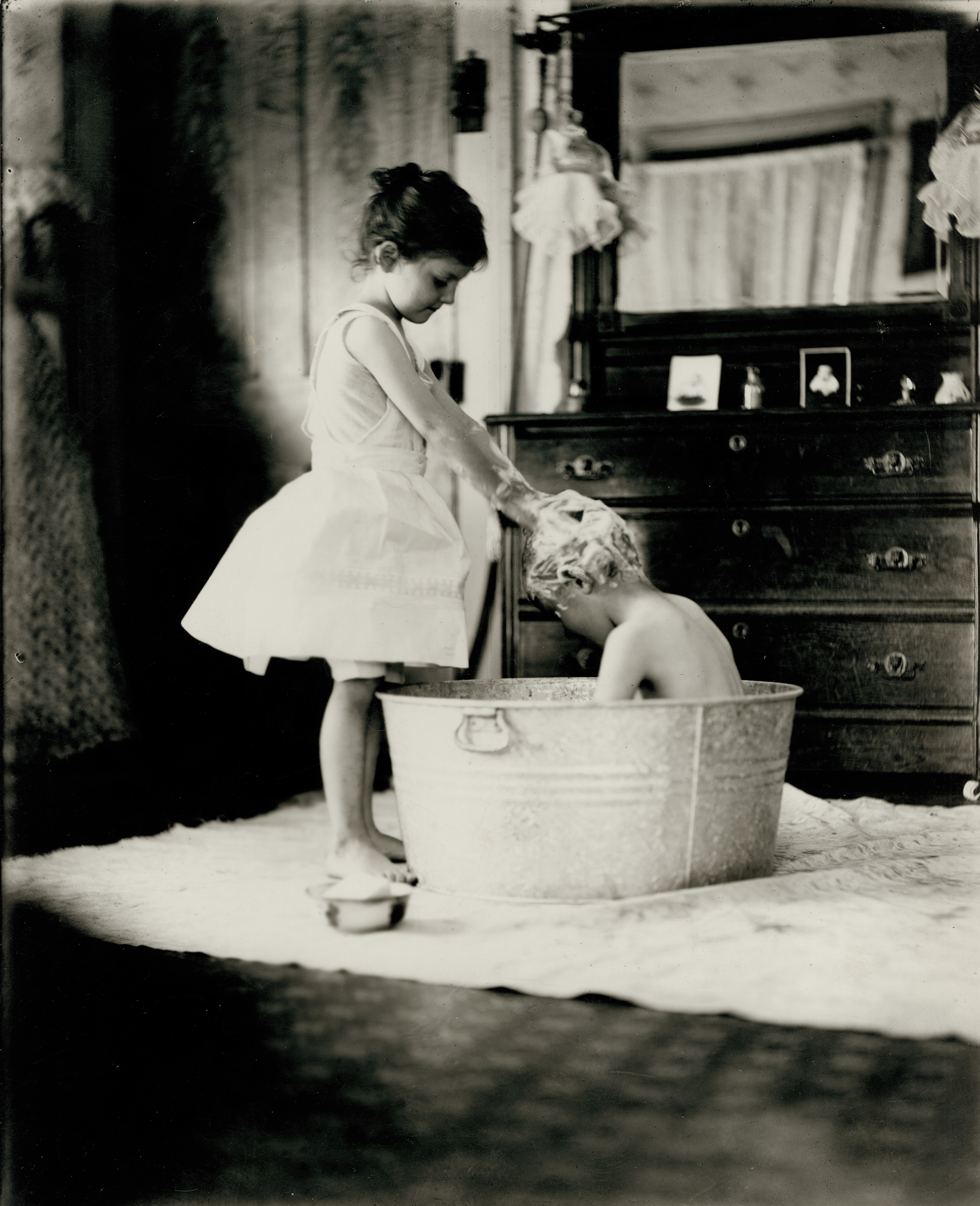 Title: The Saturday Bath. (Young girl giving boy a shampoo in a washtub).